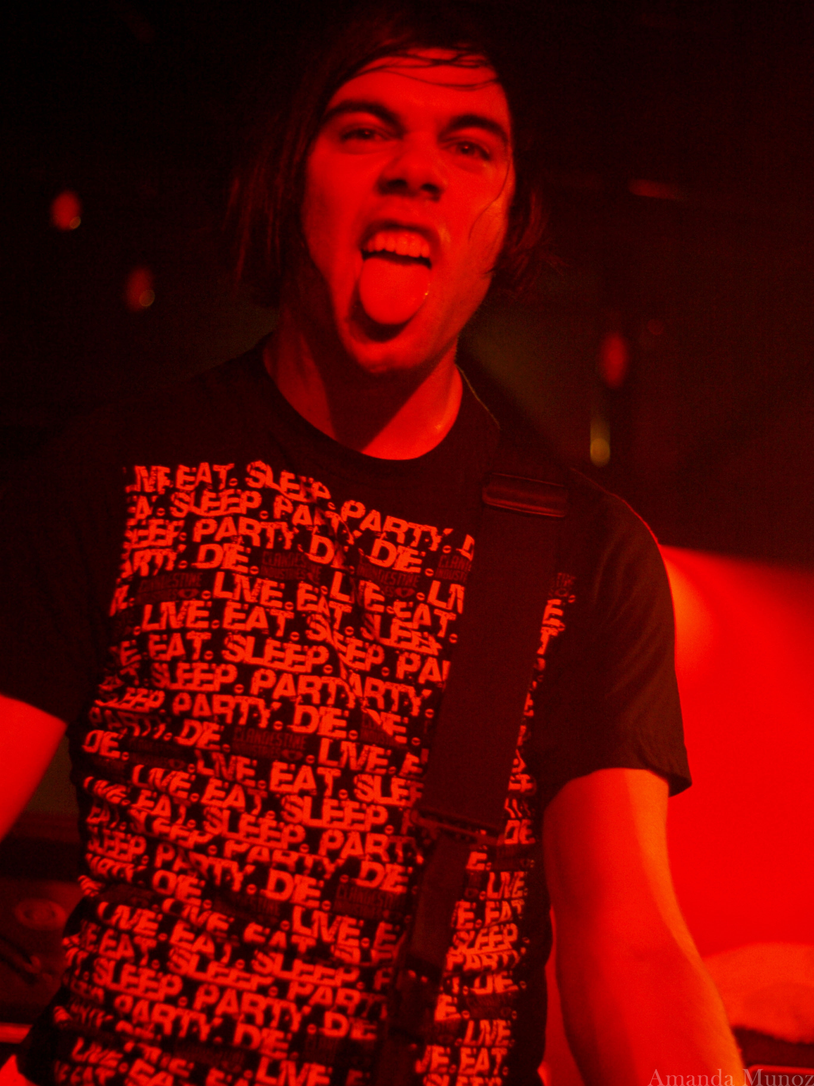 Mike Gentile